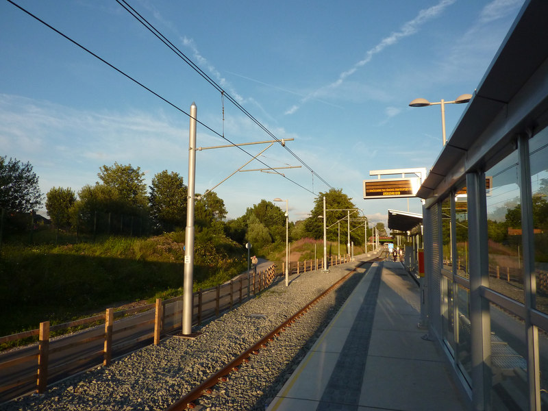 St Werburgh's Road Metrolink station, Chorlton, CTYPE html PUBLIC "-//W3C//DTD XHTML 1.0 Strict//EN" " St Werburgh's Road Metrolink station, Chorlton:: OS grid SJ8293 :: Geograph Britain and Ireland - photograph every grid square! Geograph - photograph every grid square SJ8293 : St Werburgh's Road Metrolink station, Chorlton near to Withington, Manchester, Great Britain.